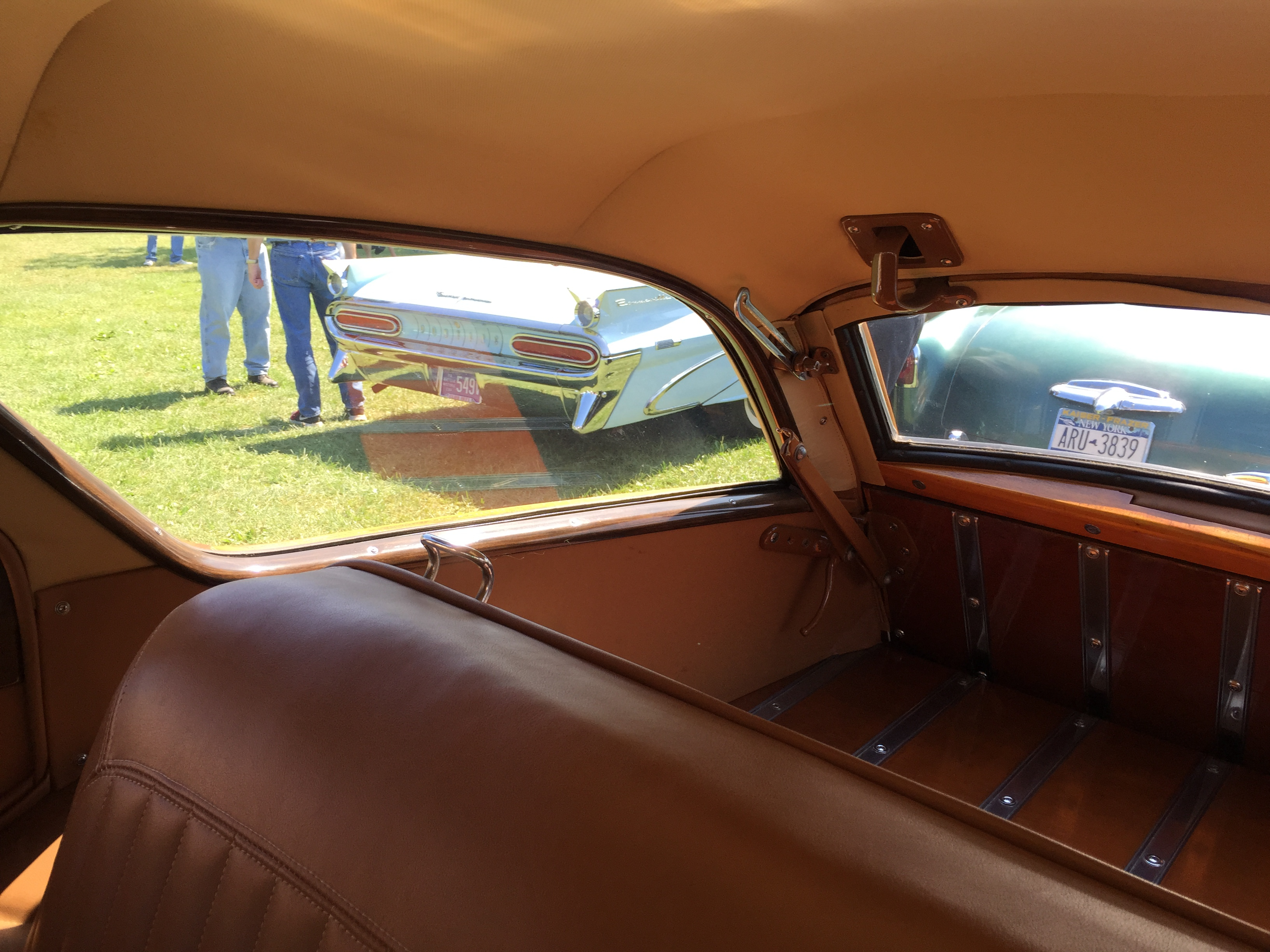 Packard Station Sedan. Picture taken at the 52nd Annual "Das Awkscht Fescht" antique car show in Macungie, Pennsylvania.